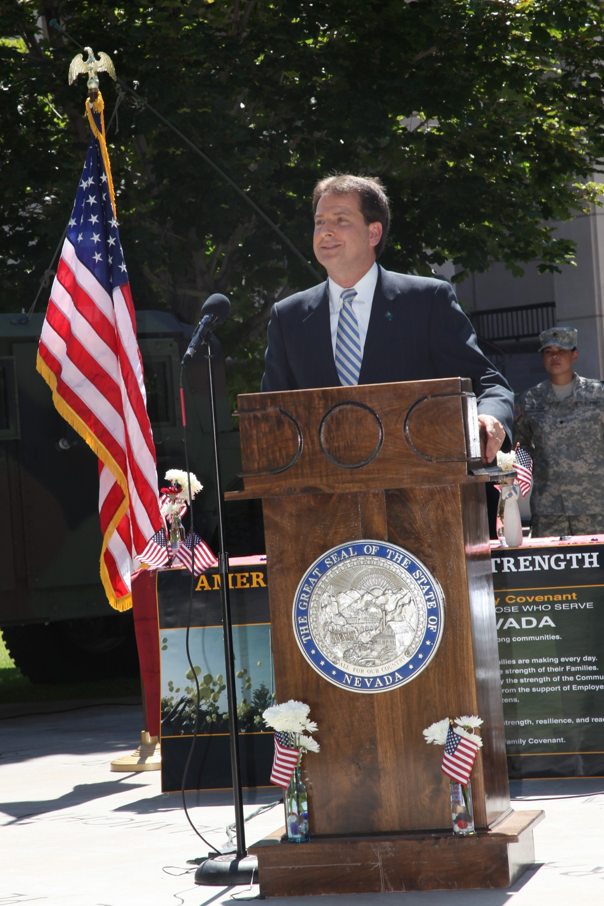 Nevada Lieutenant Governor Brian Krolicki speaks at the Nevada Community Covenant Ceremony